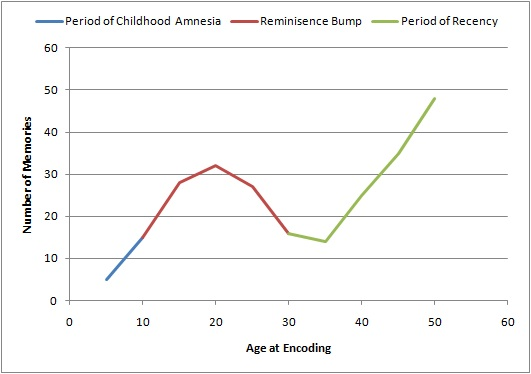 Replication of Lifespan Retrieval Curve inspired by work by Conway and Haque, arbitrary numbers were selected to create curve